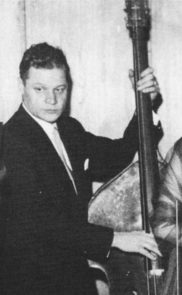 Matti Louhivuori